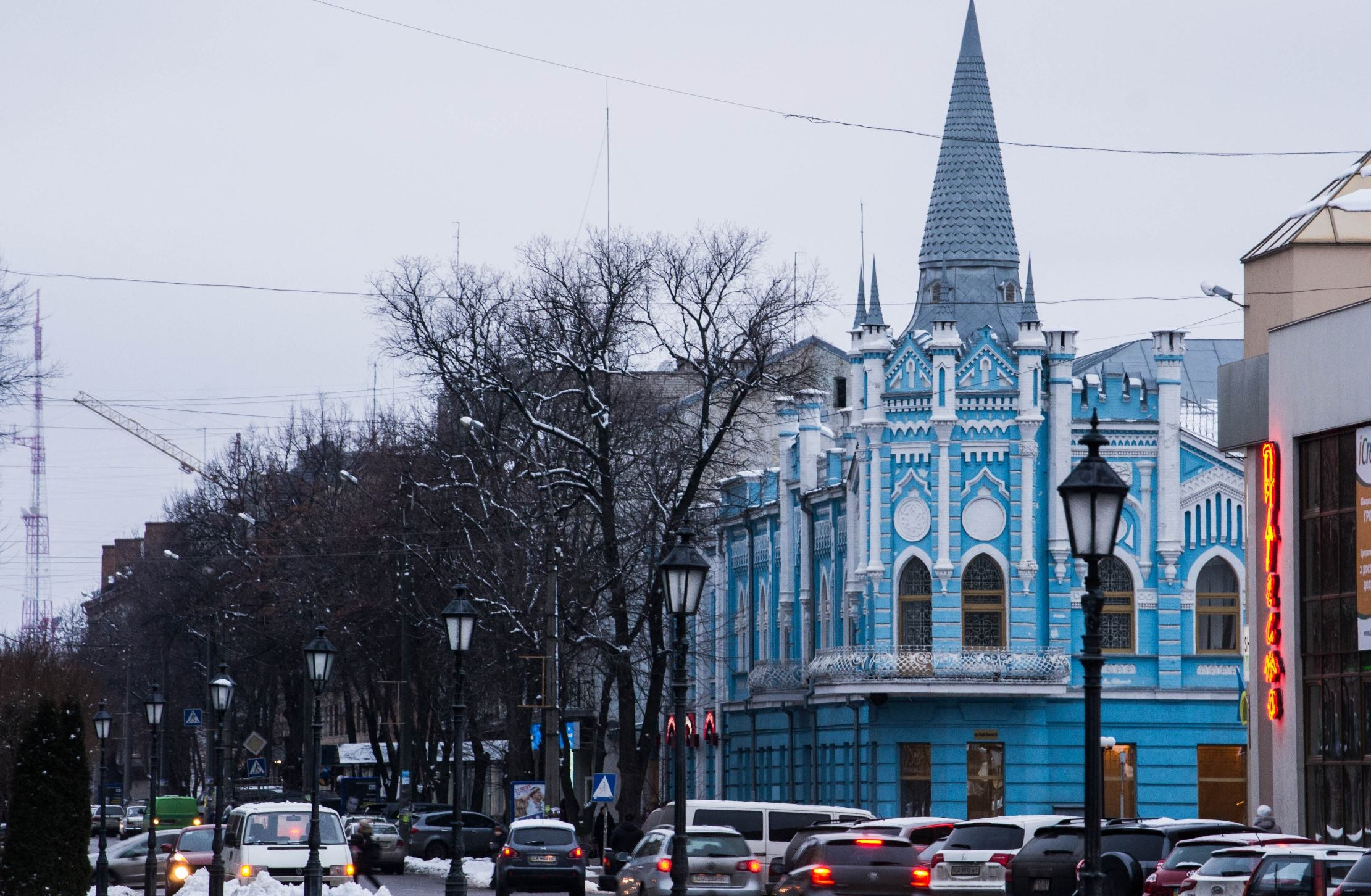 Building of the Slovyanskyi Hotel